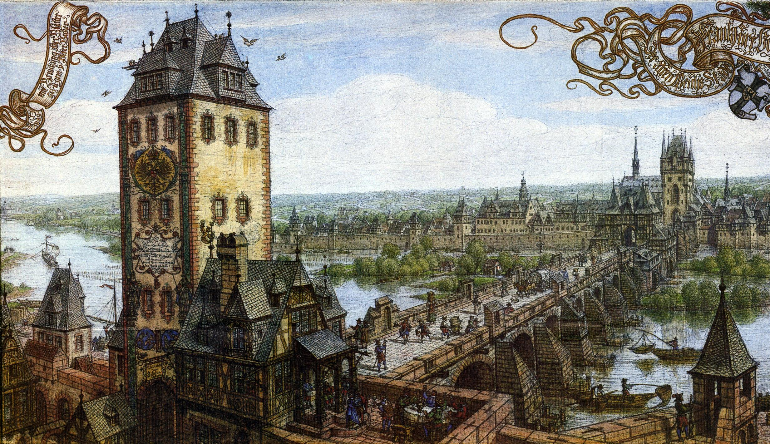 Frankfurt's Vorstadt of Sachsenhausen at the beginning of the 17th century, water colour; transcript of the headline (from left to right): „AD 1889 / under use of old documents drawn and painted by Peter Becker / the old imperial city / Frankfurt's suburbia Sachsenhausen / as seen from the inn at the old bridge tower / founder of Frankfurt / Charlemagne / and Sachsenhausen“